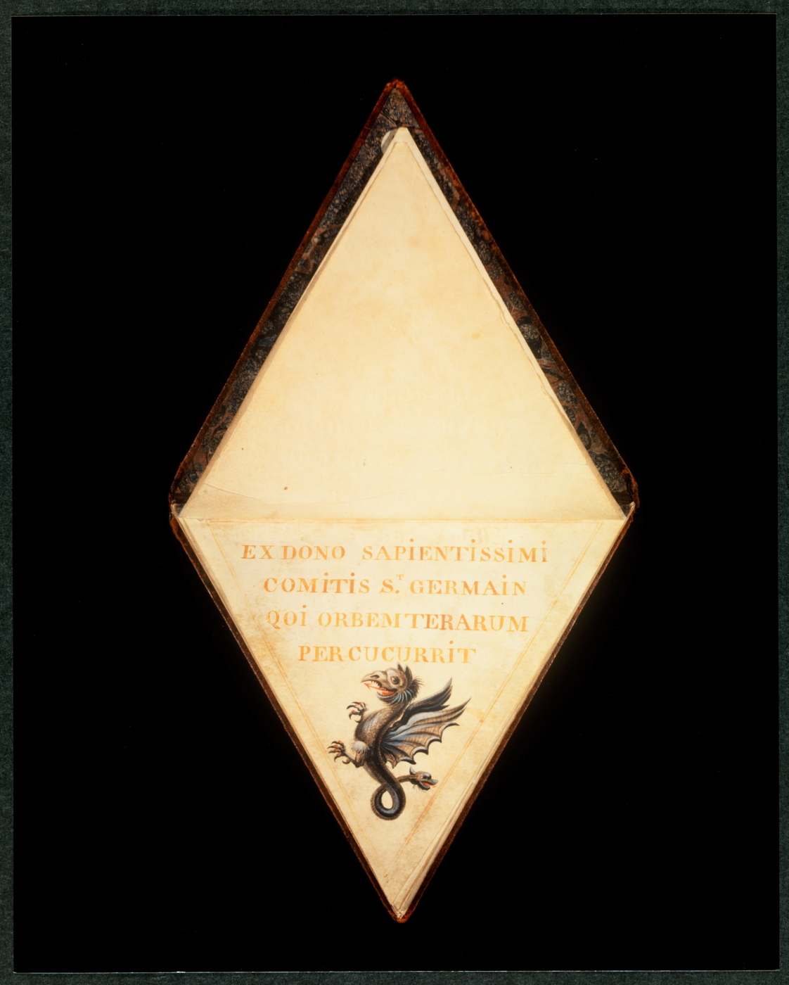 Triangular Manuscript of St. Germain - opening page Cover page, with Latin text (EX DONO SAPIENTISSIMI COMITIS ST. GERMAIN QUI ORBEM TERRARUM PER CUCURRIT) and an image of a Dragon